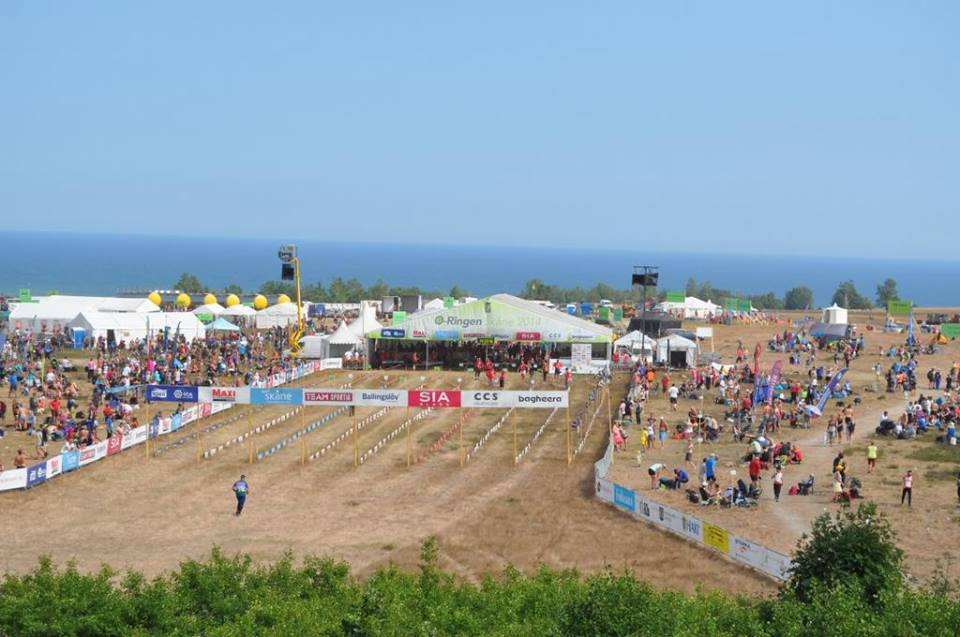 O-Ringen, Skåne 2014 E5